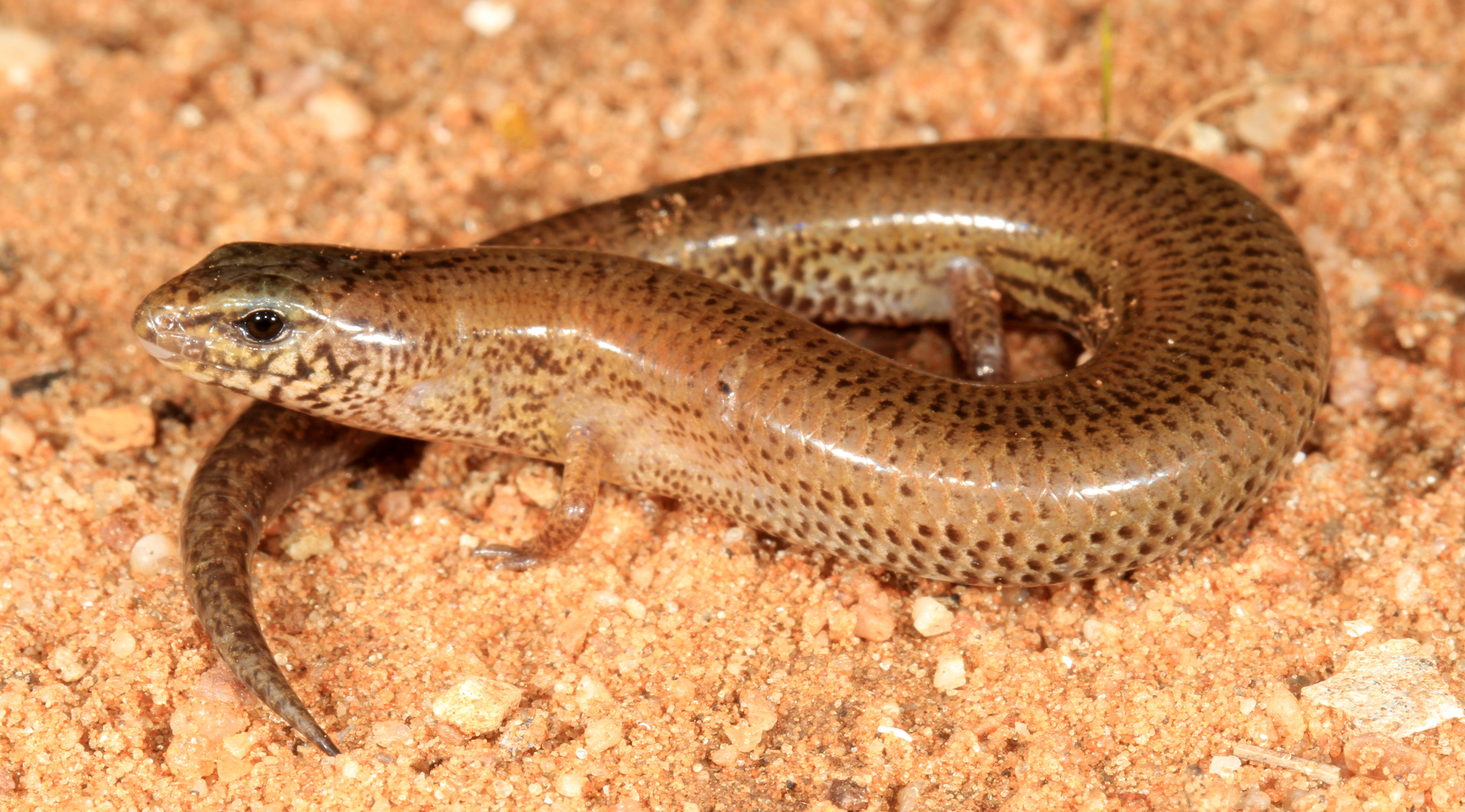 North Adelaide Arid Zone, South Australia.